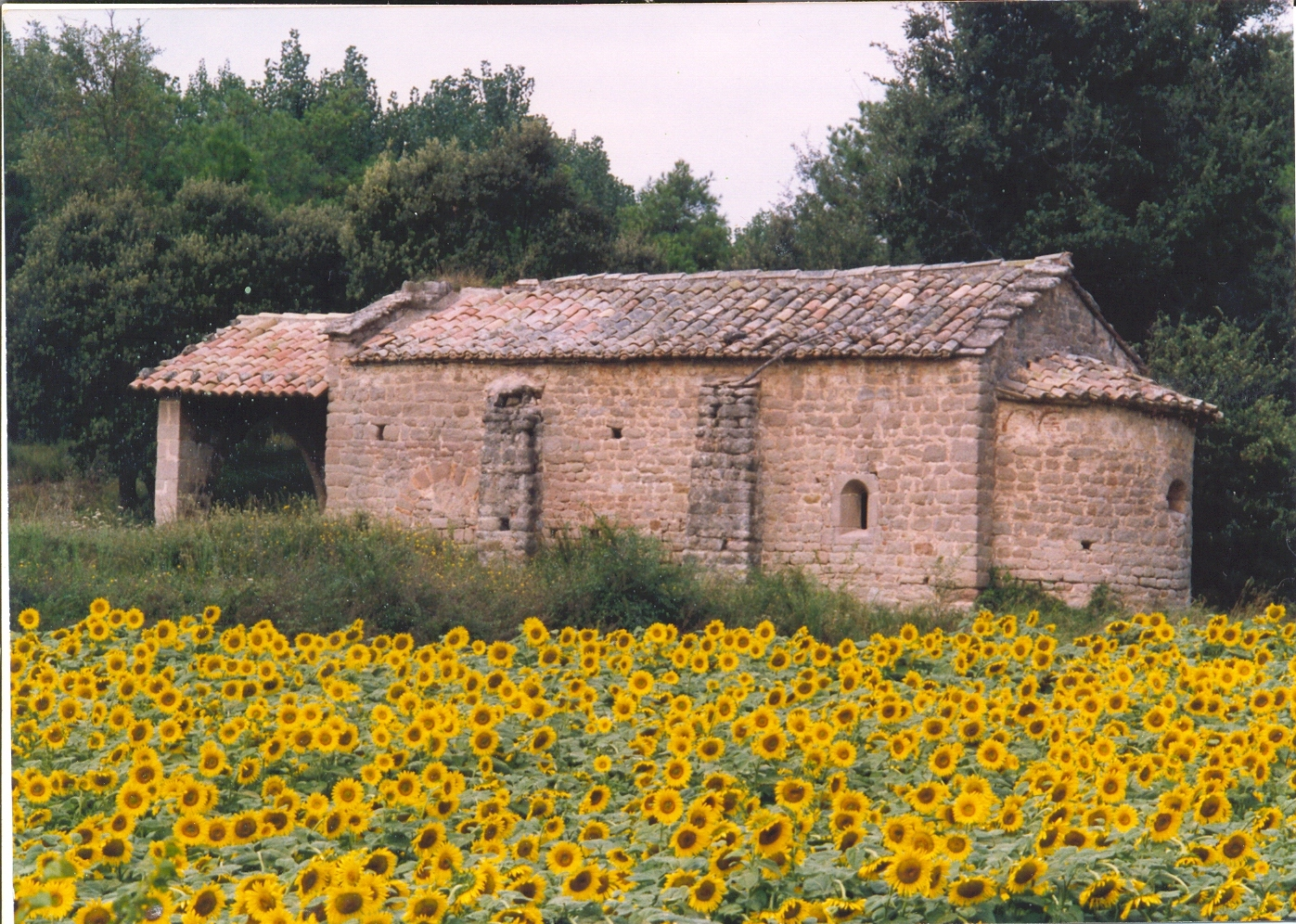 Romanesque church of Sant Marçal, before the 1994 fires.